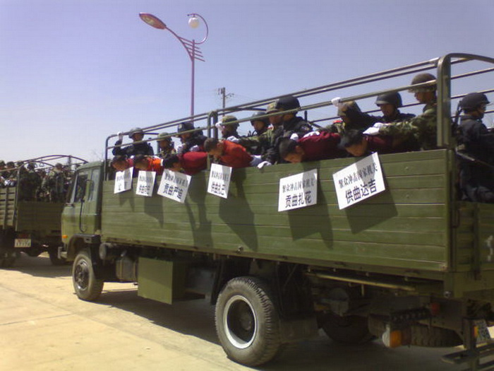 Arrested Monks and lay Tibetans, Military Crackdown in Ngaba, Tibet, 2008-04-05